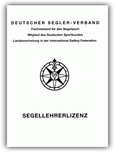 segellehrerlizenz